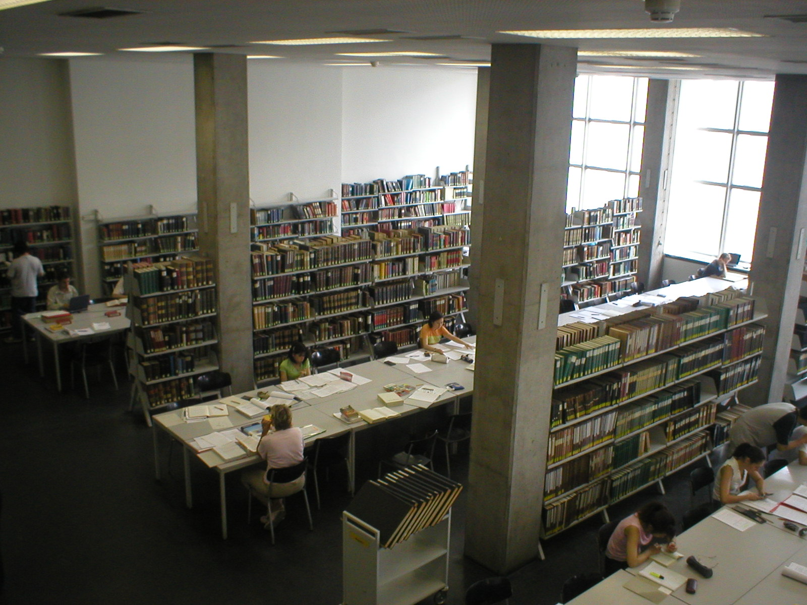 Interior of the Universitary Library, Frankfurt. Architect: Ferdinand Kramer